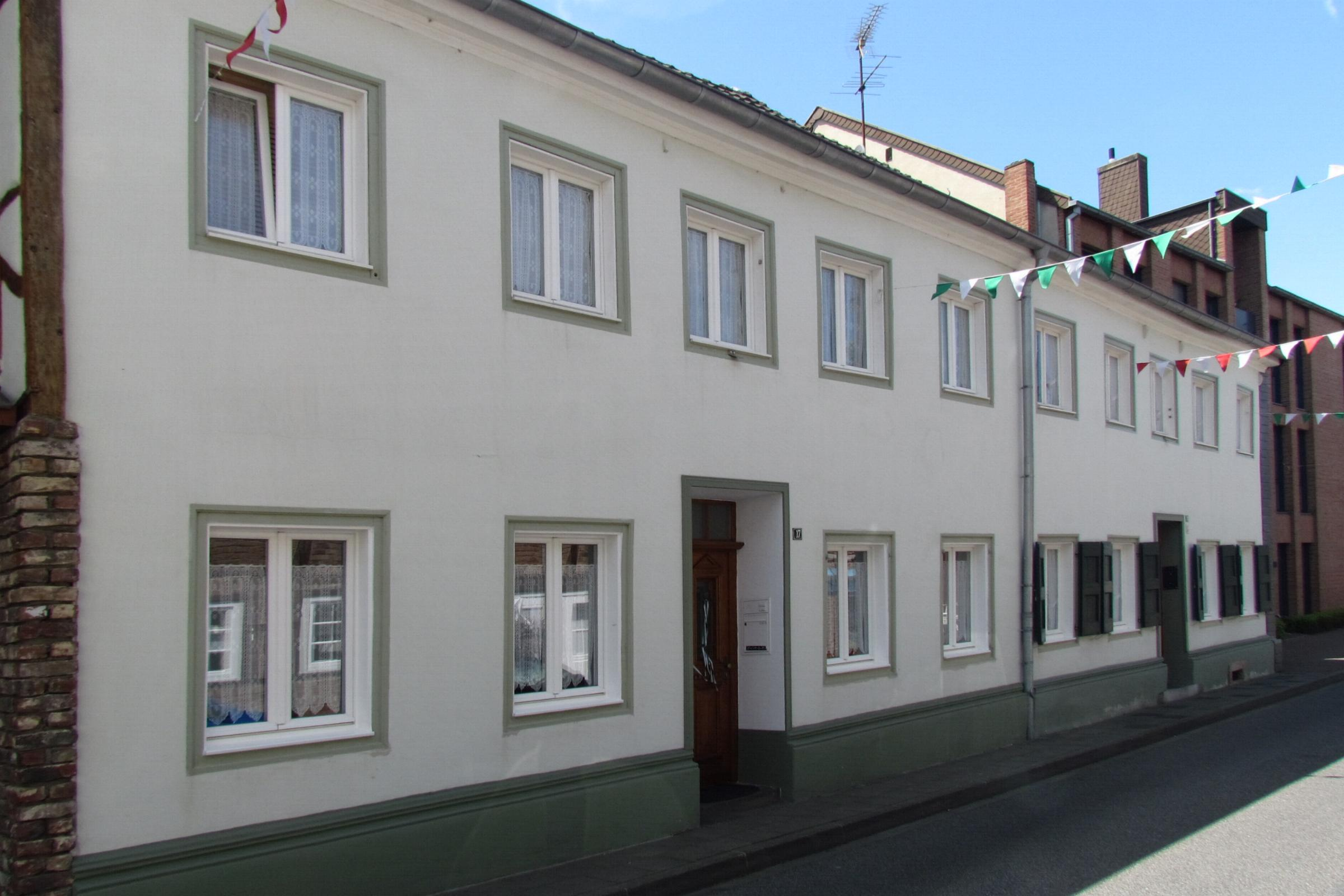 This is a photograph of an architectural monument.It is on the list of cultural monuments of Korschenbroich